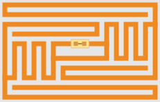 Wal-Mart-ийн ЭБК хэрэглэдэг RFID шошго .